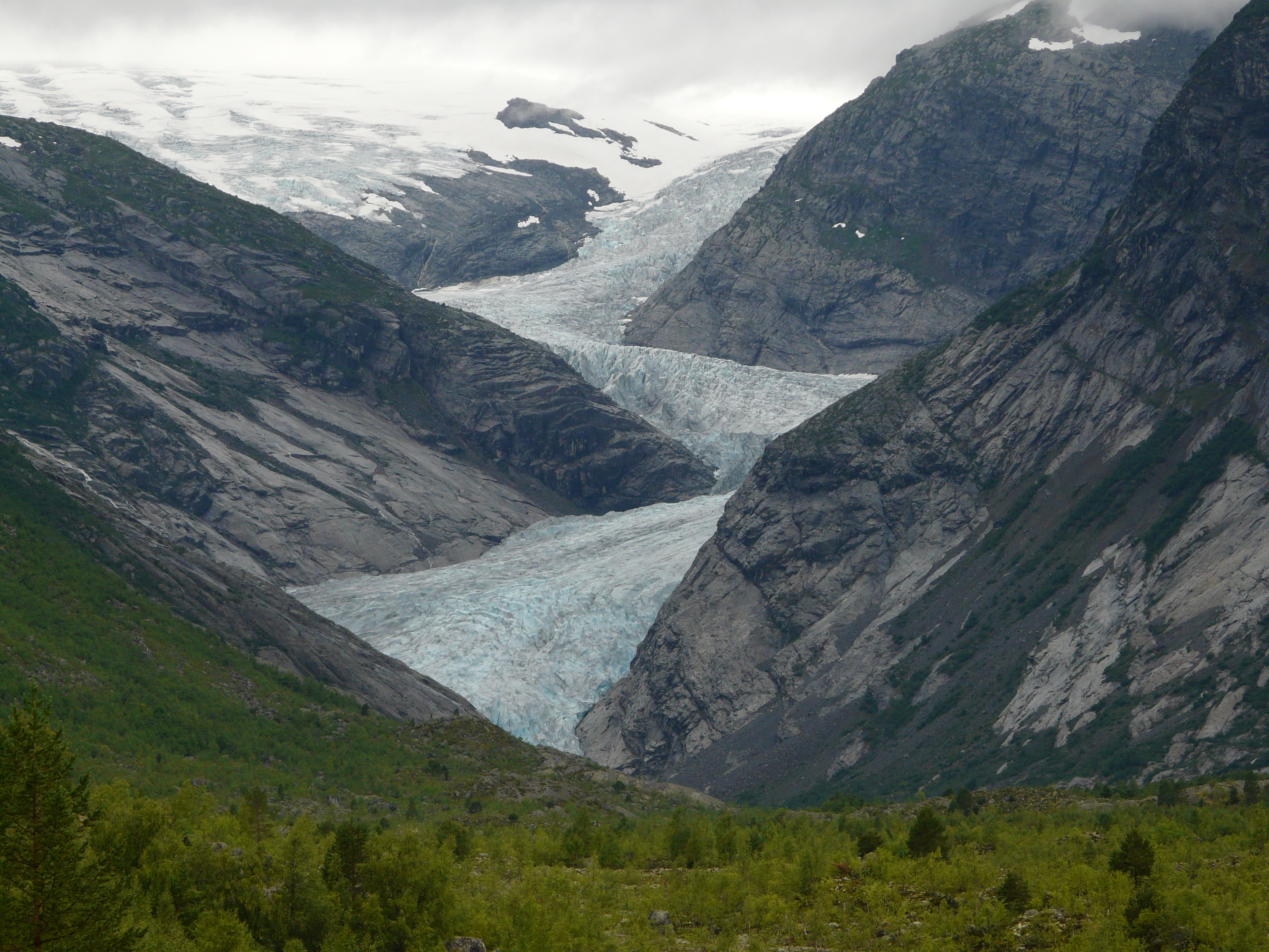 Jostedalsbreen